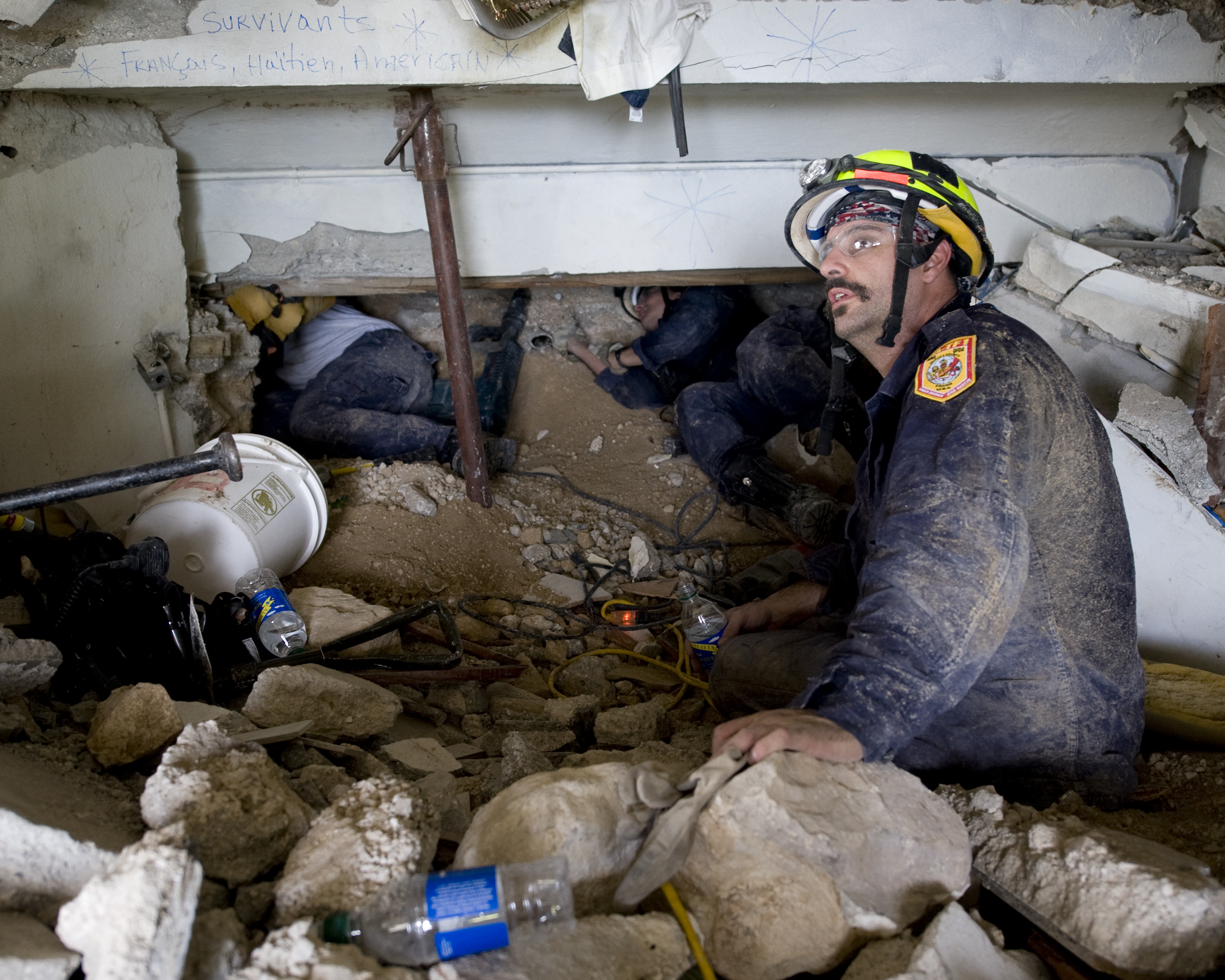 Members of Fairfax County Urban Search and Rescue conduct a rescue operation at the Montana Hotel in Port-au-Prince, Haiti, Jan. 14, 2010. The all volunteer service partnered with U.S. Agency for International Development (USAID) and multi-national relief agencies to support relief efforts in the aftermath of the 7.0 magnitude earthquake that occurred earlier in the week. VIRIN: 100114-N-6266K-020